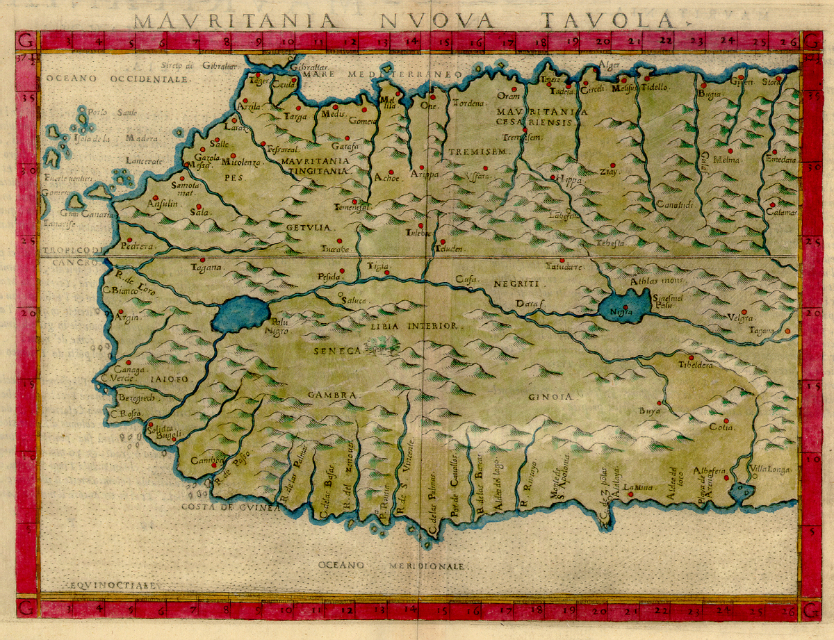 MAVRITANIA NVOVA TAVOLA, from Italian translation of Ptolemy's Atlas “La Geograpfia Di Claudio Tolomeo Alessandrino, Nouvamente Tradatta Di Greco in Italiano”. Published in 1575 in Latin and Italian. 17.5 x 23.9 cm. On sheet 22 X 32.1 cm.